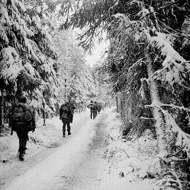 517th Parachute Regimental Combat Team in the Hurtgen Forest